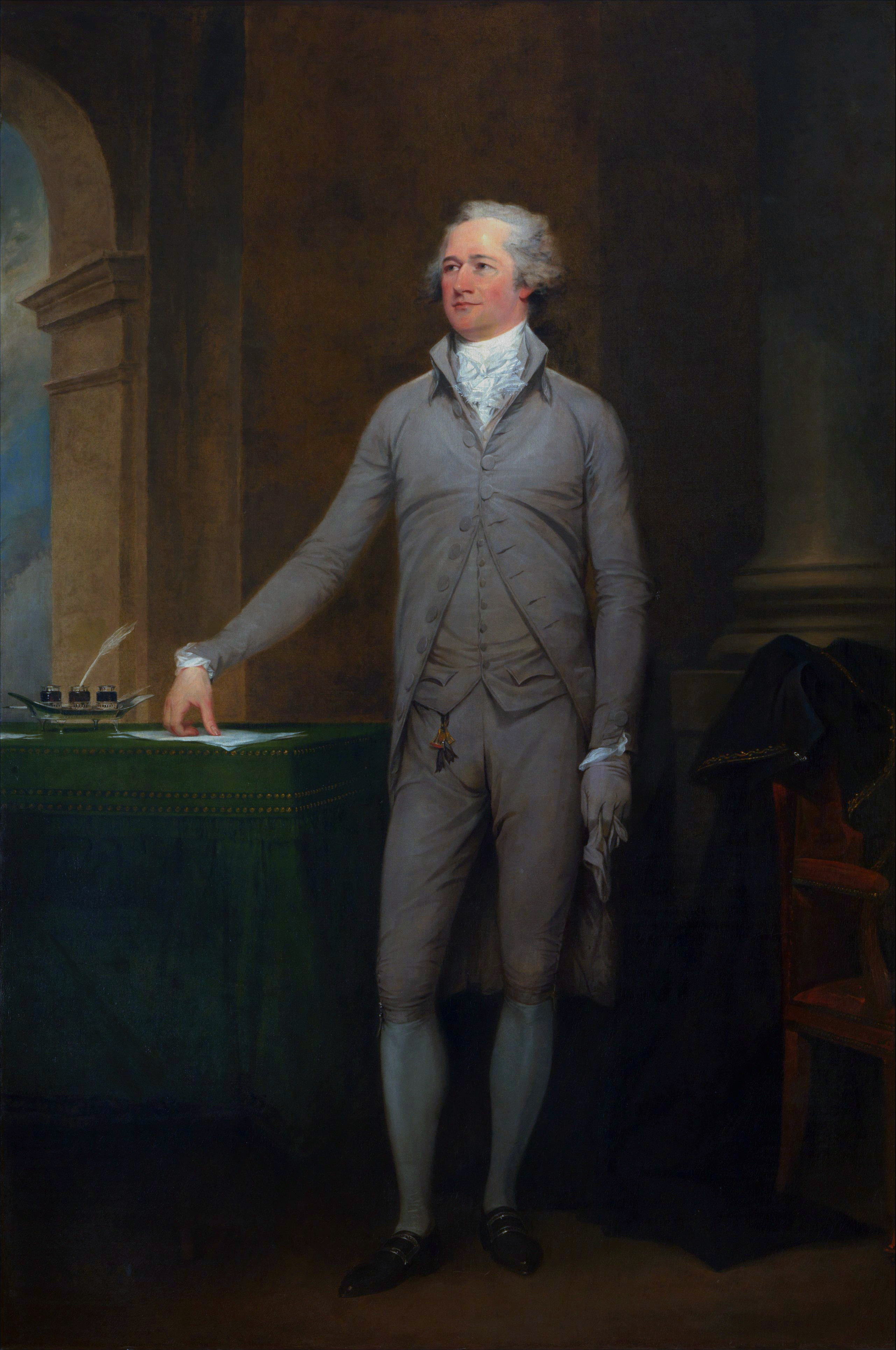 Full-length portrait of Alexander Hamilton by John Trumbull, oil on canvas, 1792. Donated by Credit Suisse to both the Met and the Crystal Bridges Museum of American Art in 2013, which will take turns displaying it (see NYT article, 14. March 2014)